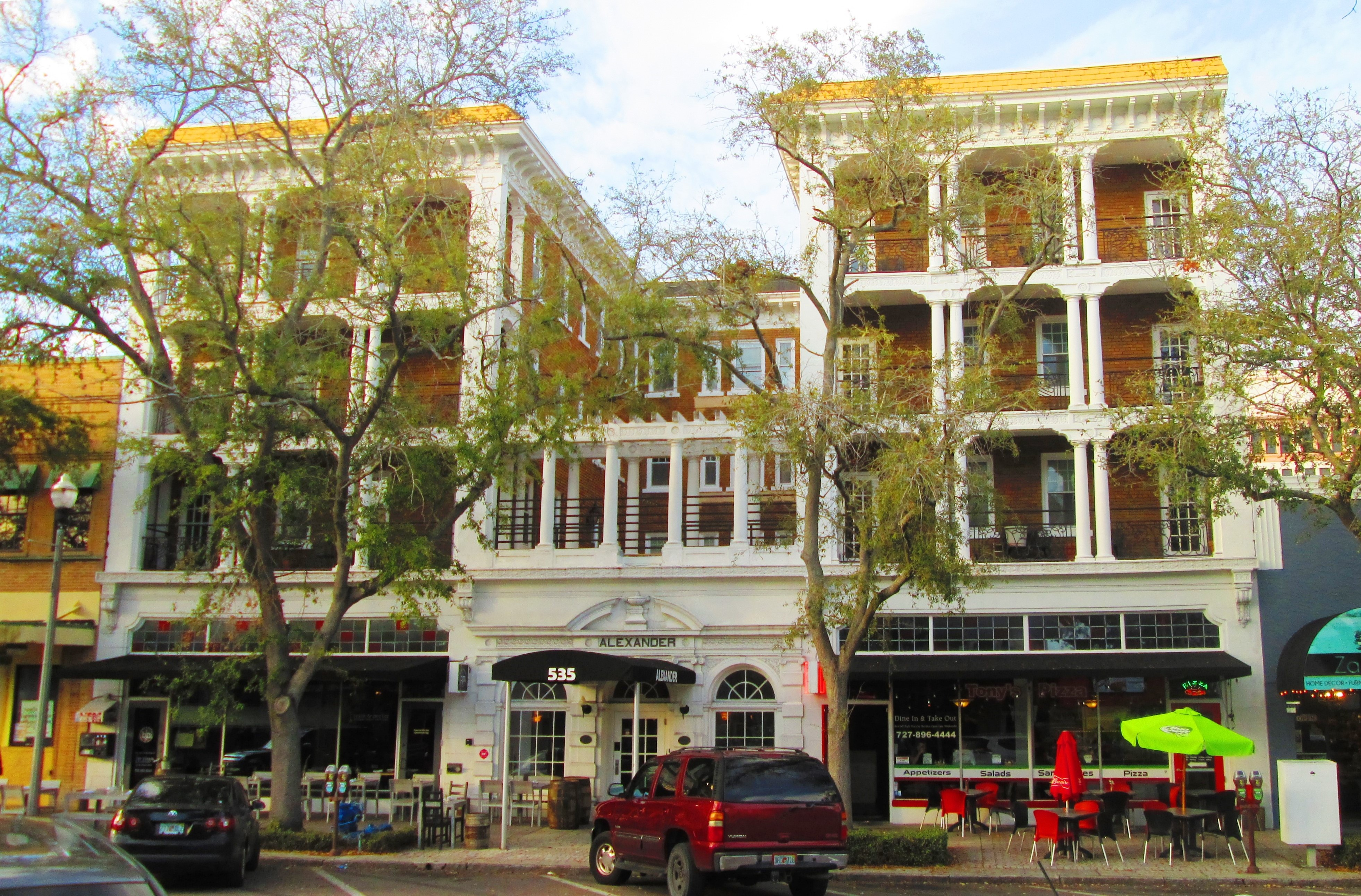 The Alexander Hotel, located at 535 Central Avenue between 5th Street S. and 6th Street S. in downtown St. Petersburg, Florida. The four-story building was built in 1919 and was designed by Neel Reid in the Classical Revival style. It has been converted to an office building. On November 1, 1984, it was added to the National Register of Historic Places. It is located within the Downtown St. Petersburg Historic District.